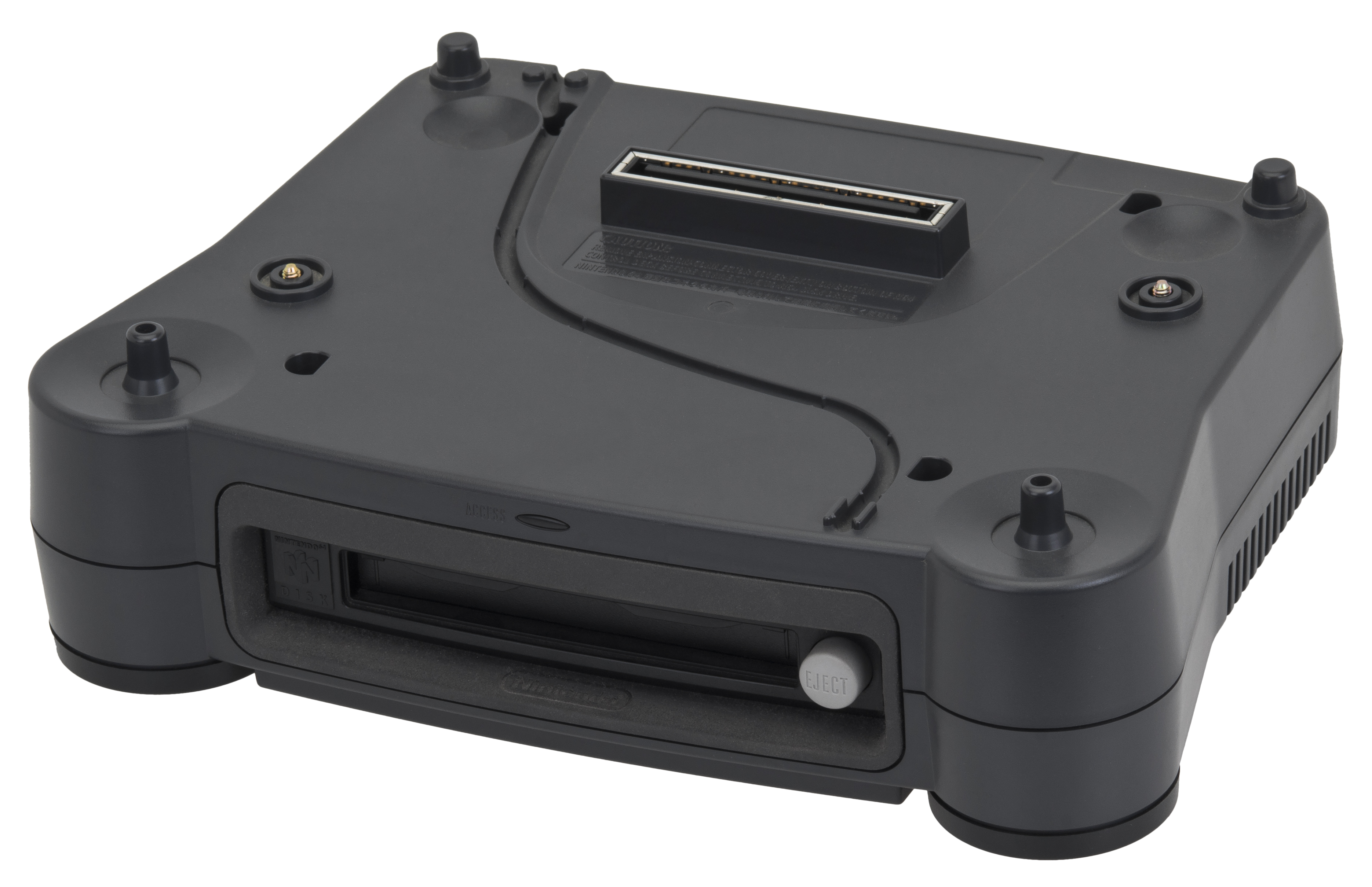 The 64DD shown unattached. The 64DD is a magnetic disk storage drive for the Nintendo 64.